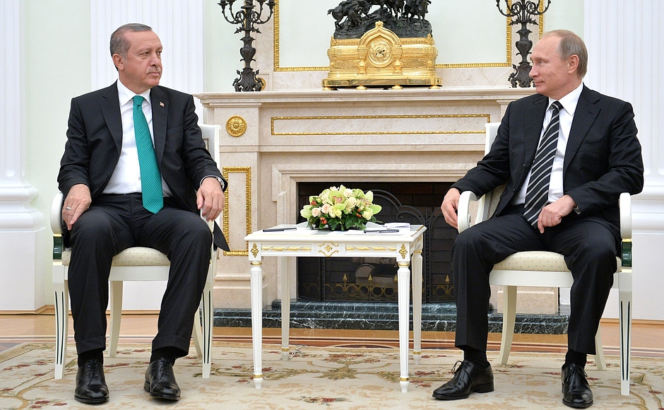 Vladimir Putin held talks at the Kremlin with President of Turkey Recep Tayyip Erdoğan, who is in Russia to take part in the opening ceremony of Moscow’s Cathedral Mosque following reconstruction.